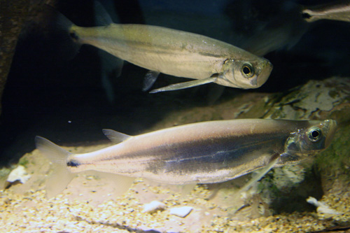 A sword minnow (Thai: ปลาดาบลาว, ปลาฝักพร้า), or Macrochirichthys macrochirus, at the Chiang Mai Zoo Aquarium, Thailand, in January 2011. Picture taken by myself